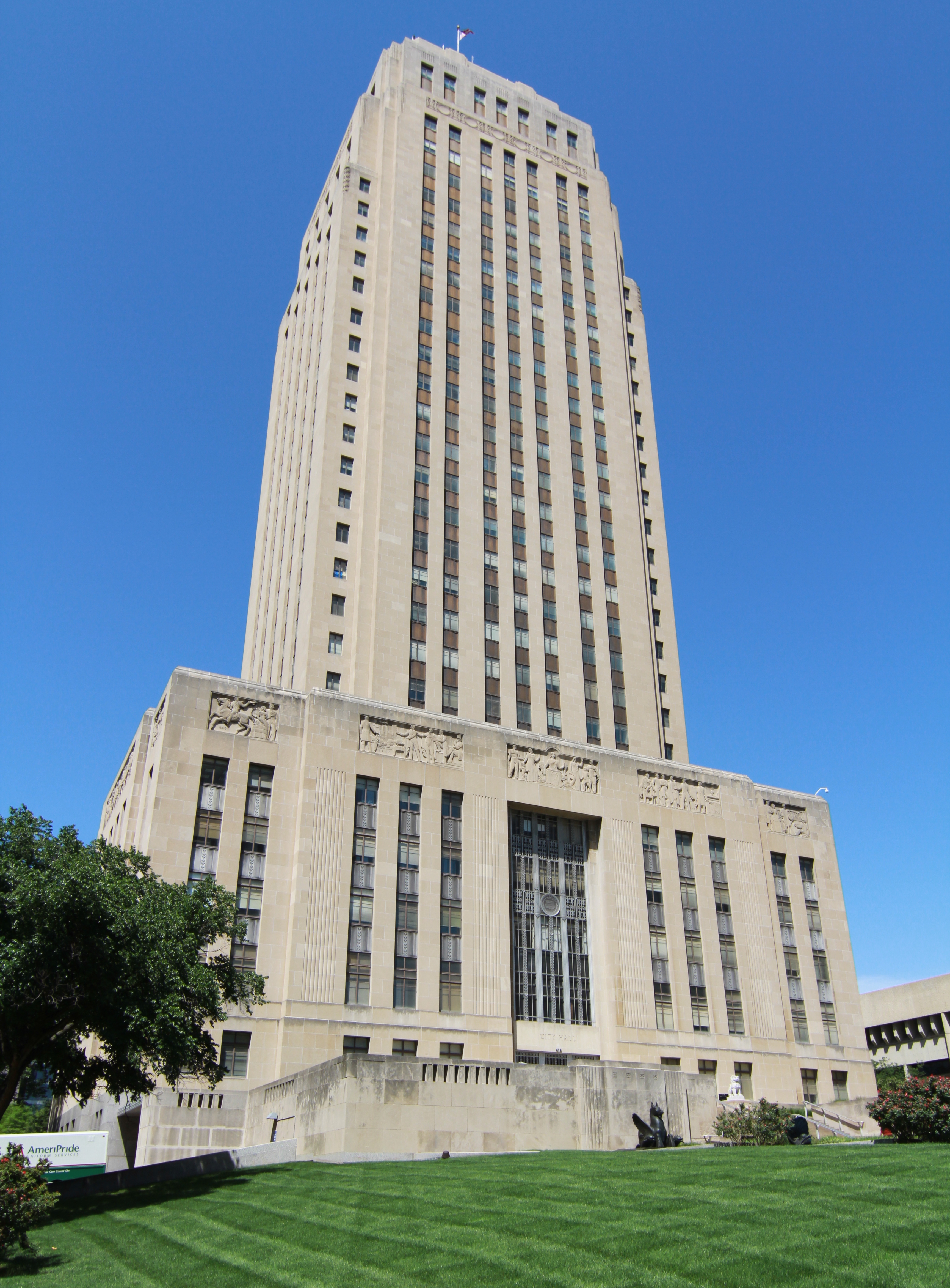 Photo taken of the Kansas City Hall in Kansas City Missouri. Photo by Mario Antoine